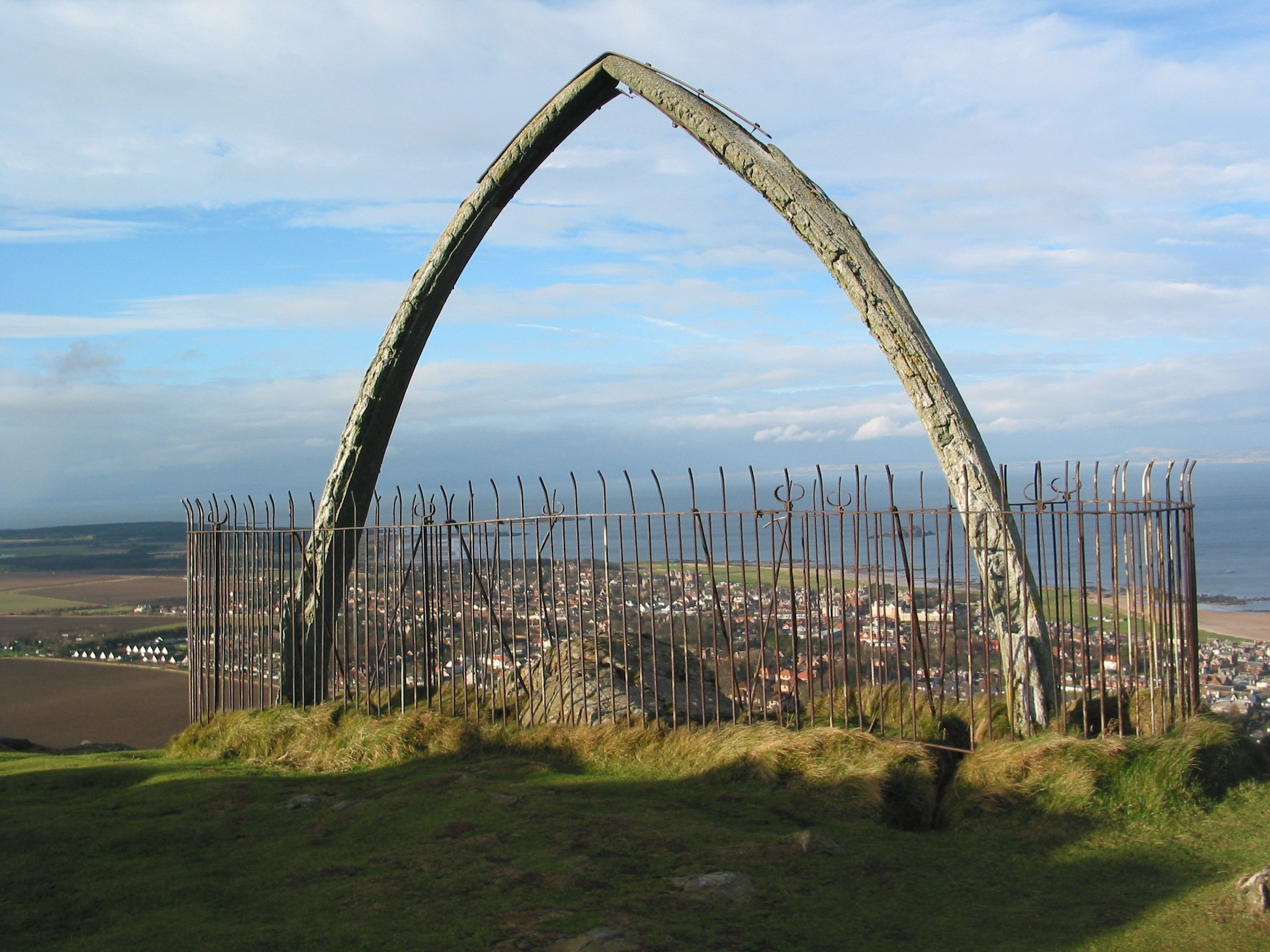 Whale's Jawbone on the top of North Berwick Law, 16 January 2005